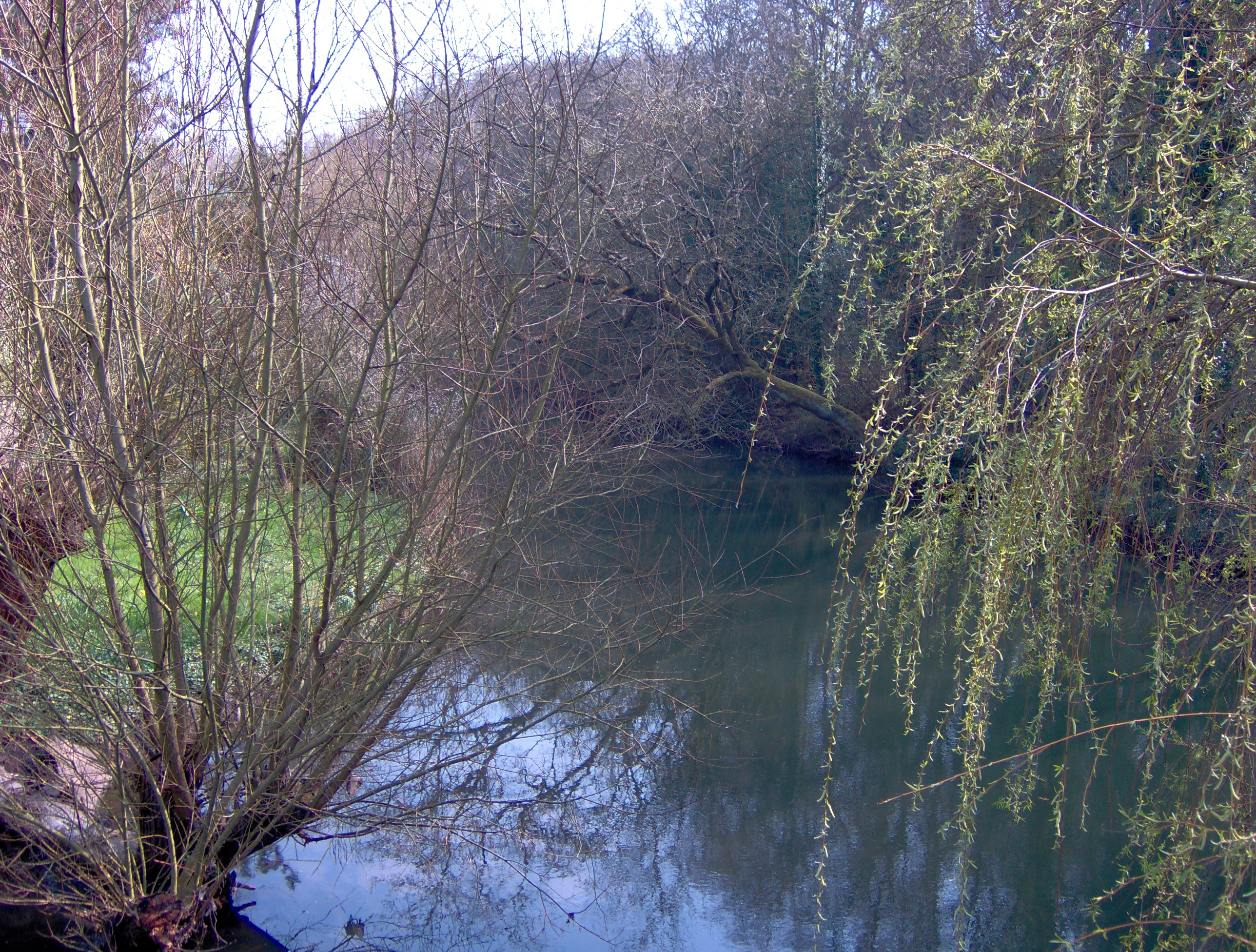 River Frome, Bristol. Taken somewhere in the Snuff Mills area.